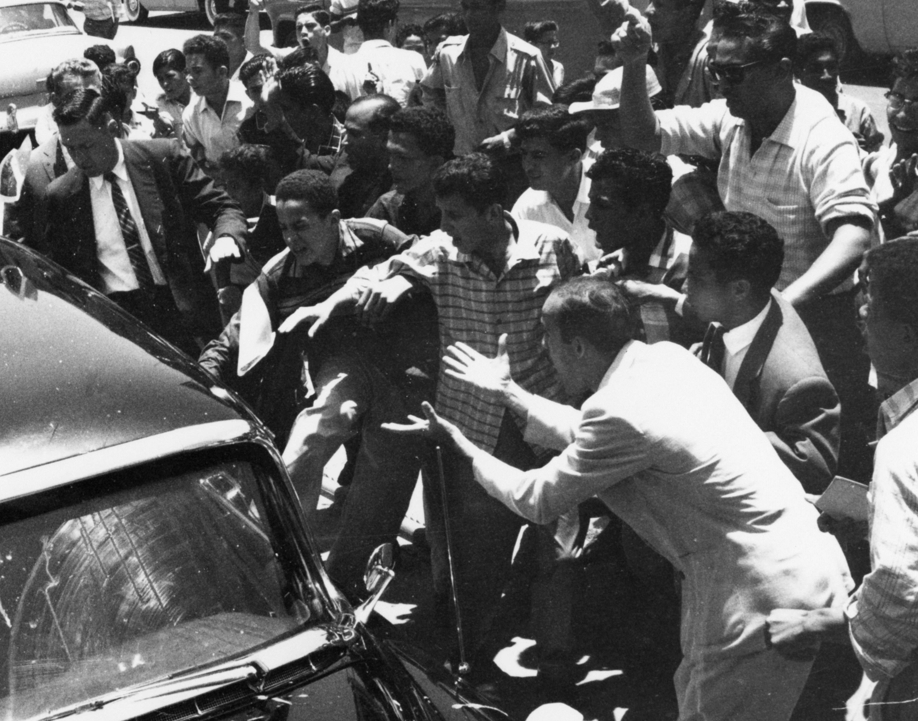 Vice President Richard Nixon's motorcade drives through Caracas, Venezuela and is attacked by demonstrators